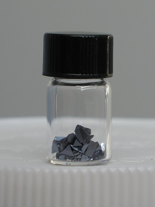 Indium phosphide crystals